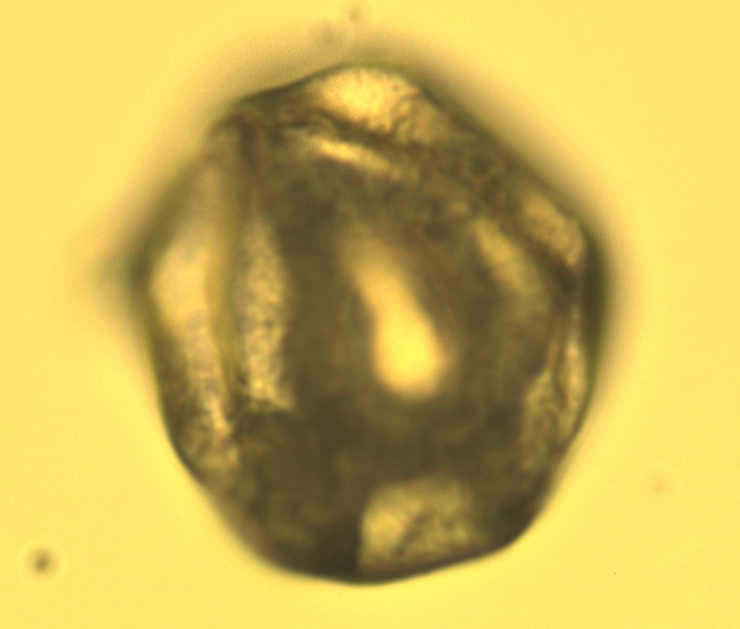 Carpinus betulus Pollen 400x